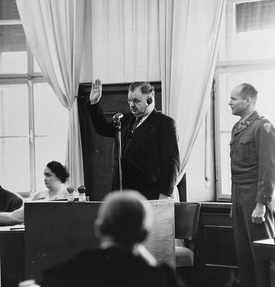 Philipp Auerbach (1906-1952) is sworn in as a prosecution witness during the Ministries Trial. He testified about his imprisonment in Auschwitz concentration camp